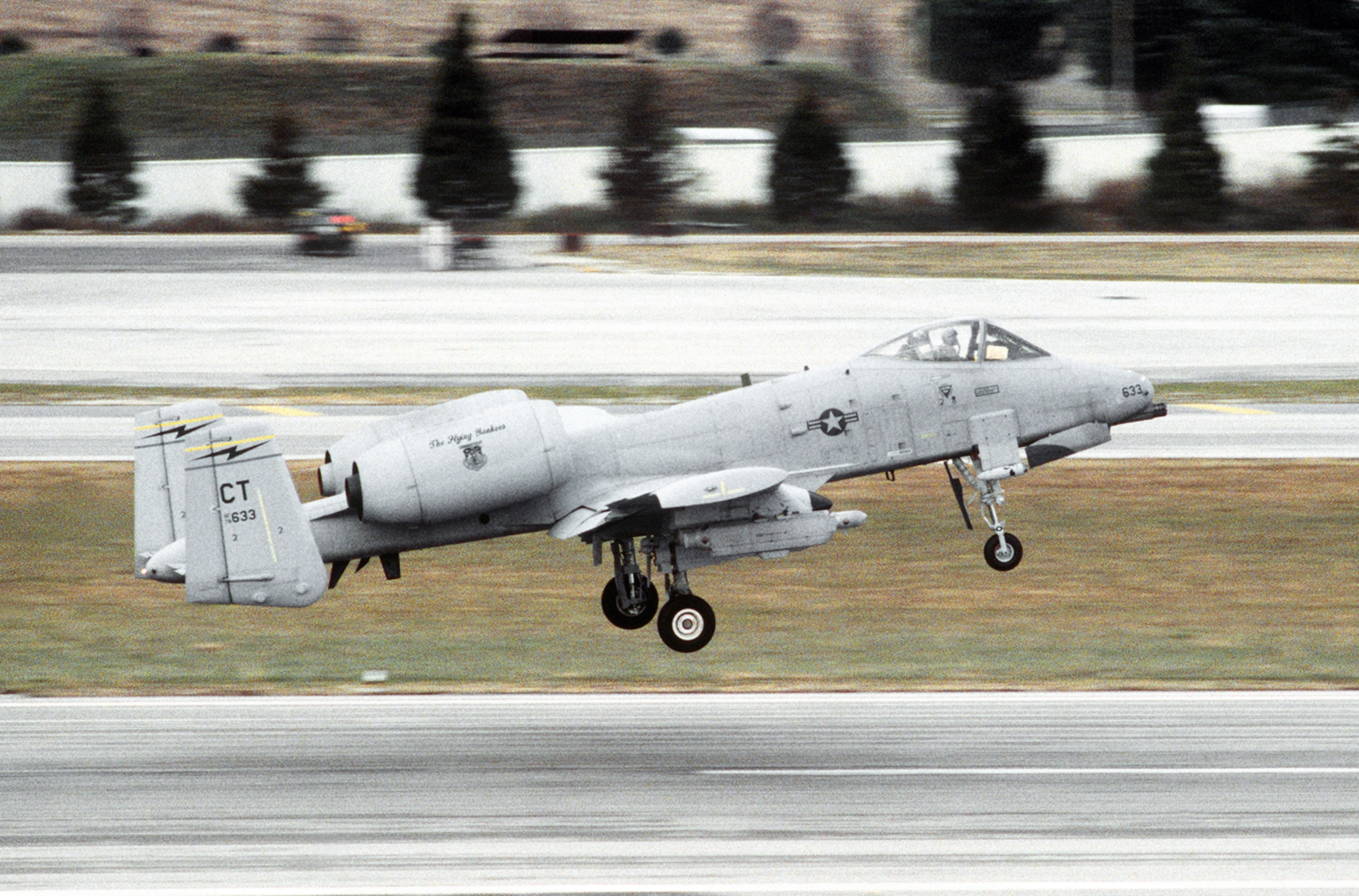 A U.S. Air Force Fairchild Republic A-10A Thunderbolt II (s/n 78-0633) from the 118th Fighter Squadron, 103rd Fighter Wing, Connecticut Air National Guard ("The Flying Yankees"), taking off from Aviano air base, Italy, in 1994. The 103rd FW was deployed to Aviano to enforce the United Nations no-fly zone over Bosnia-Herzegovina.